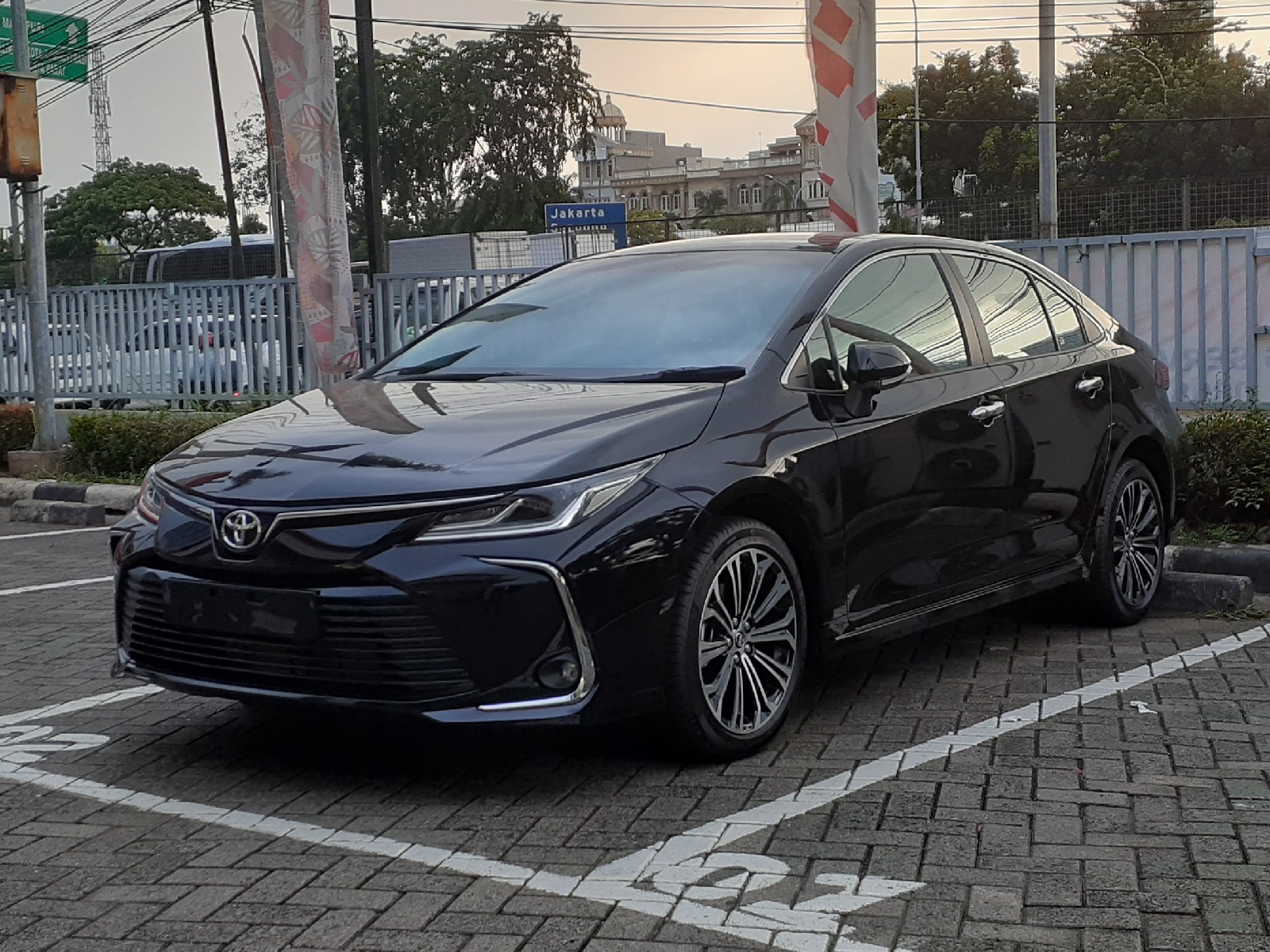 2019 Toyota Corolla Altis 1.8 V (ZRE211R-GEXGKD), shown in Attitude Black Mica Metallic. Photographed in Jakarta, Indonesia.